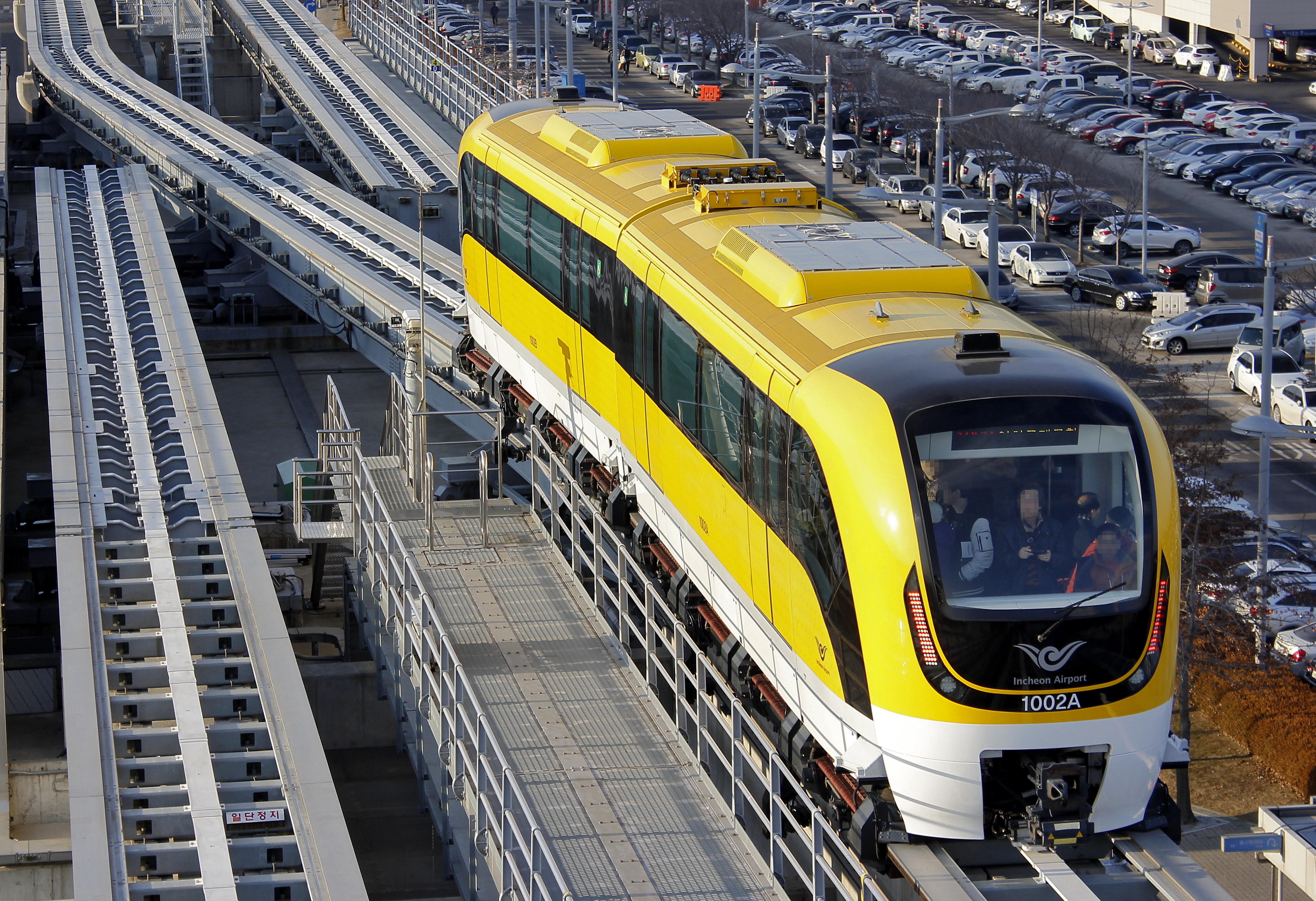 Hyundai Rotem ECOBEE maglev train passing through switch rail